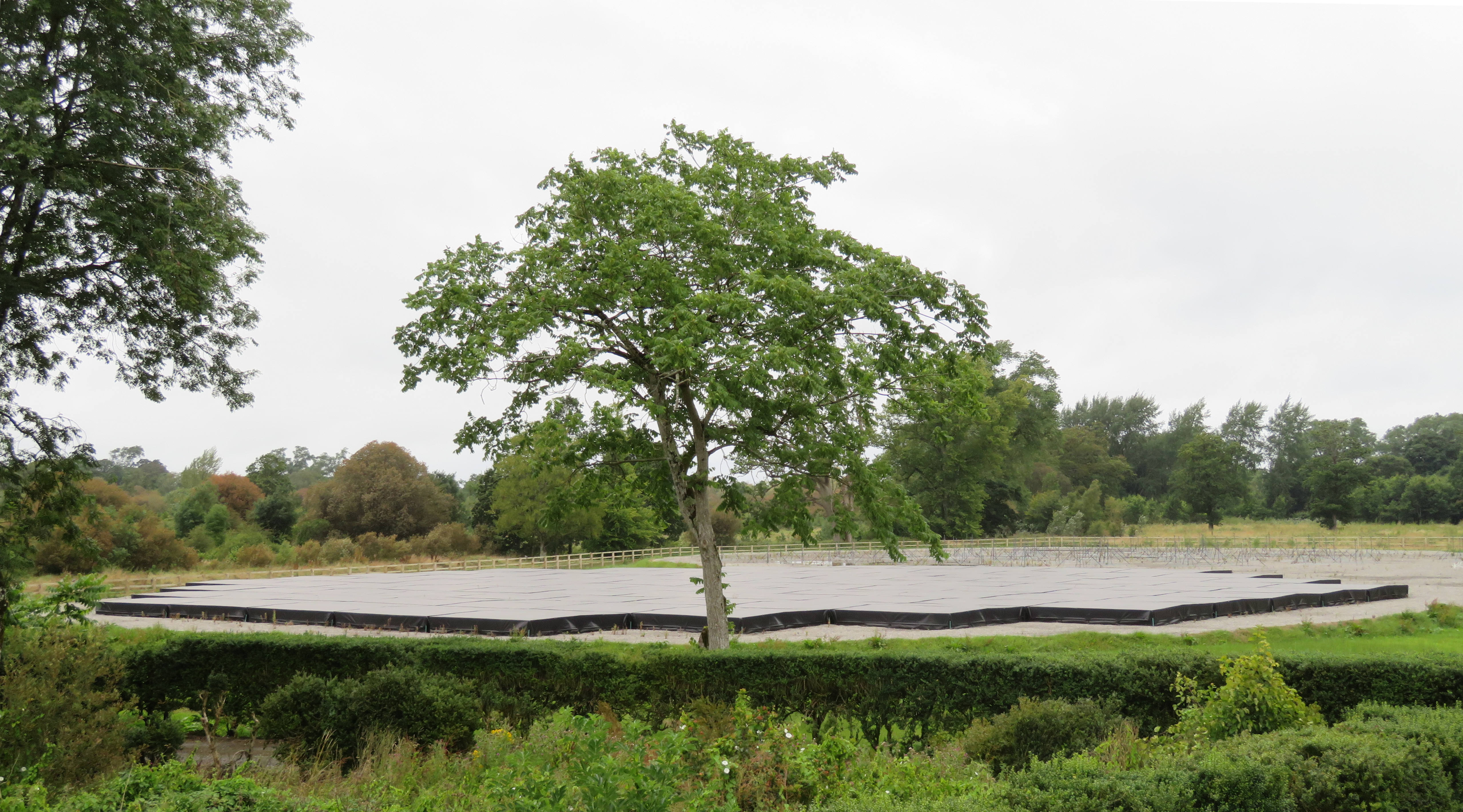 The Irish Low-Frequency Array (I-LOFAR) at Birr Castle in Ireland is a radio telescope that observes the universe at low radio frequencies during the day and night. It is part of the largest telescope in the world, with telescope stations in the array stretching across Europe between Ireland and Poland. This effectively gives the combined virtual telescope a continent-sized baseline aperture of almost 2,000 km. There are 96 high-band antennas (110–240 MHz) contained within the large, black mosaic of tiles in the foreground, and 96 low-band dipole antennas (10–90 MHz), the array of poles resembling tall sewing pins in the background held in place by ground anchors, or guy wires; visually, the low-band array resembles a swarm of tripods. The data from this and the other telescopes in the LOFAR array are sent by high-bandwidth fibre optic cables to Groningen in the Netherlands where they are integrated and analysed by an IBM Blue Gene/P supercomputer.